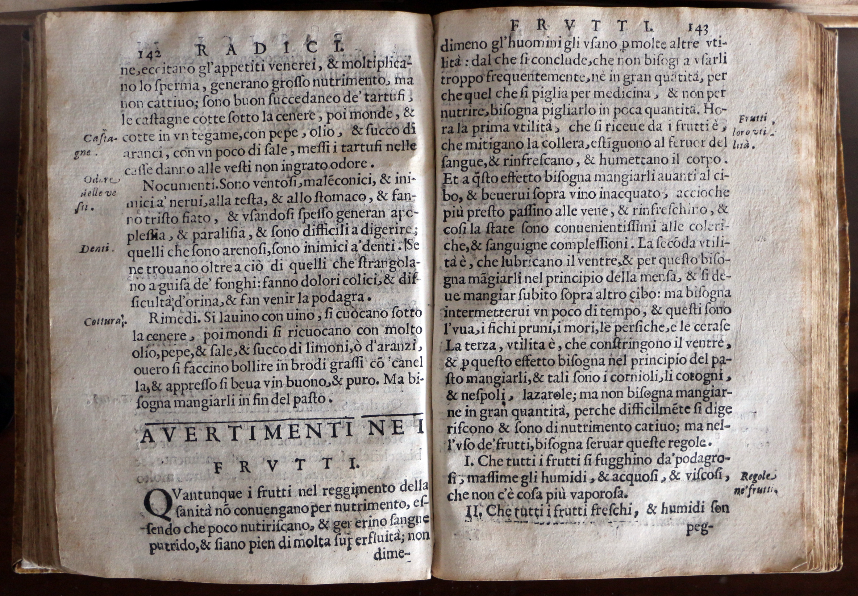 Museo Civico (Gualdo Tadino)